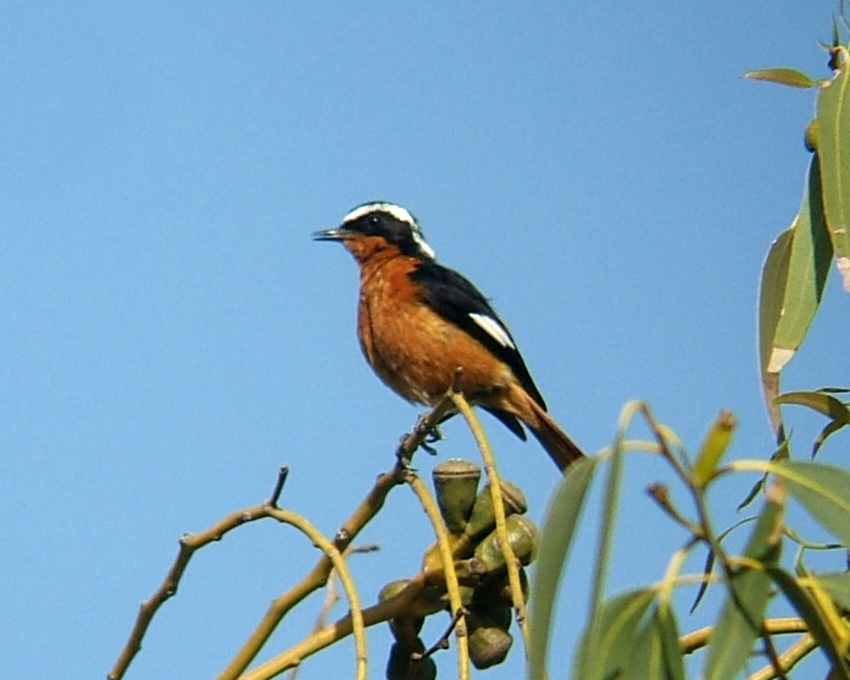 Phoenicurus moussieri, Oued Massa National Park, Morocco, 17 April 2006